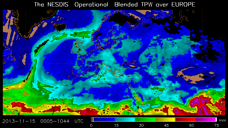 Total Precipitable Water Hilde 15/11/2013 11Z